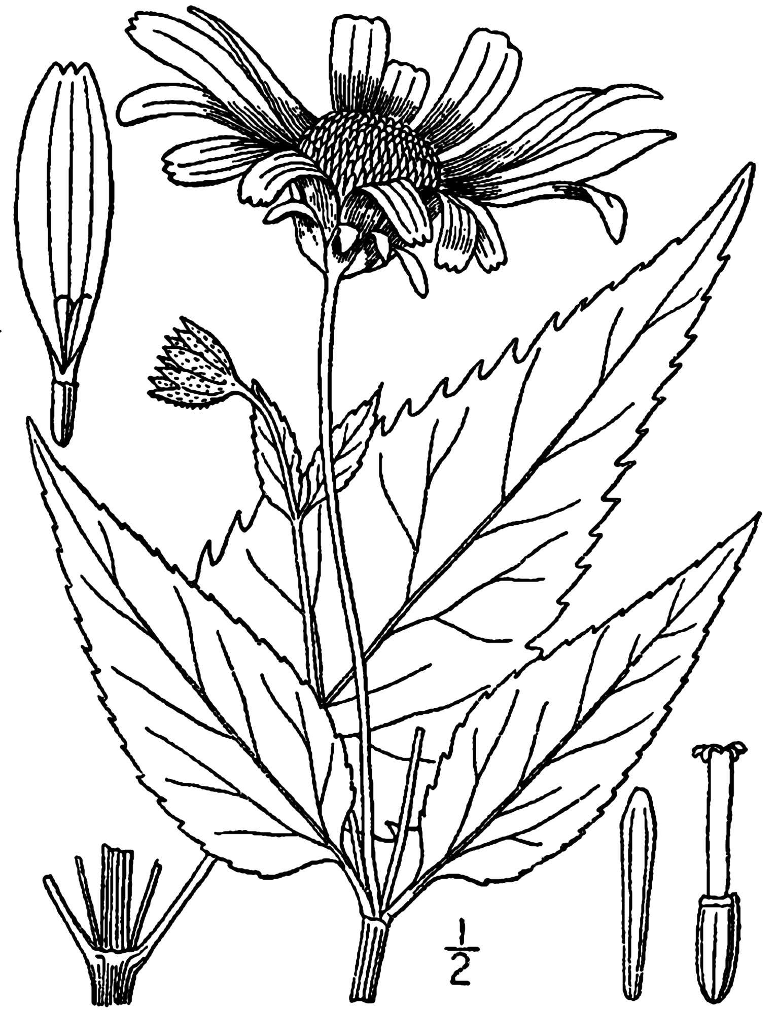 Heliopsis helianthoides